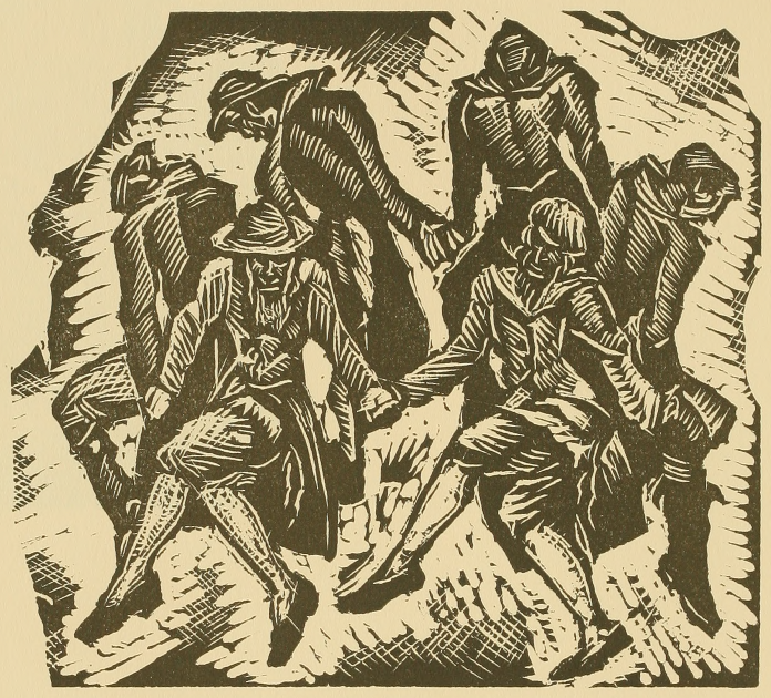 From Land to Land - Korohod (a Hasidic dance).